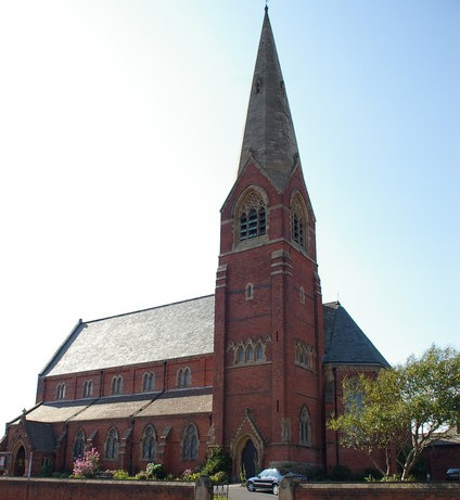 St James' parish church, Blake Street, Barrow-in-Furness, Cumbria, England, seen from the east